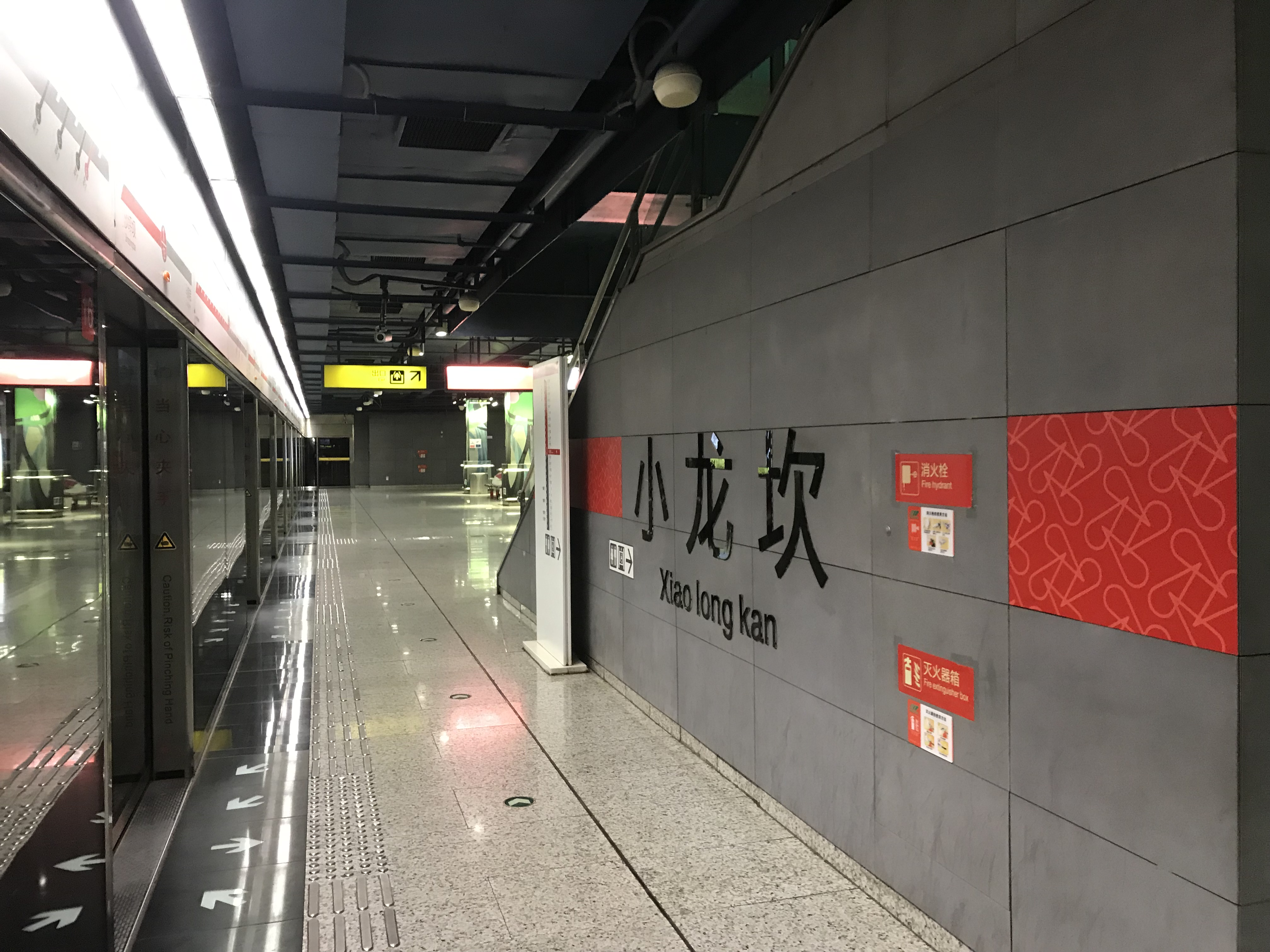 201908 Nameboard of L1 Xiaolongkan Station